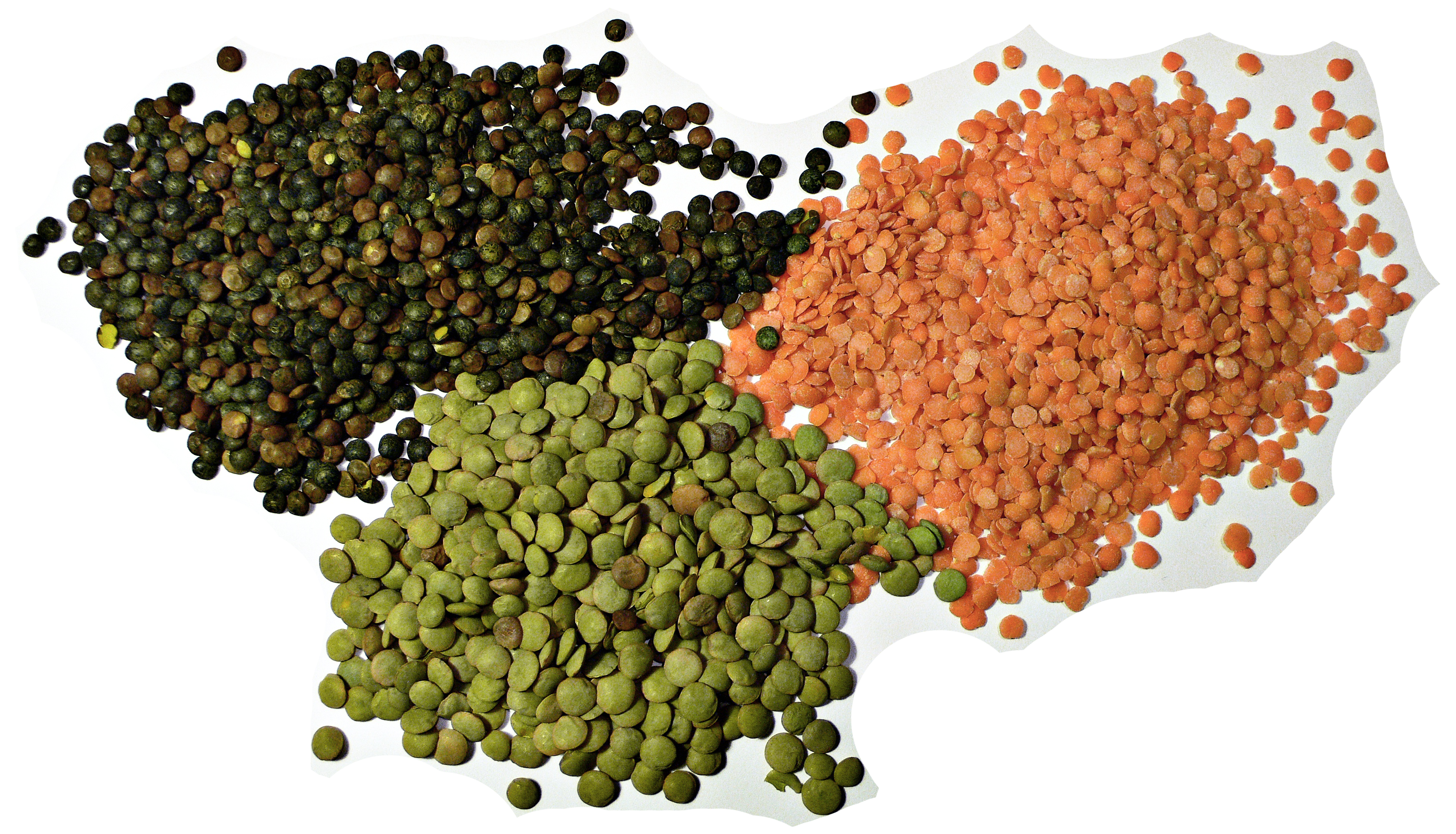 3 lentils with transparent background.